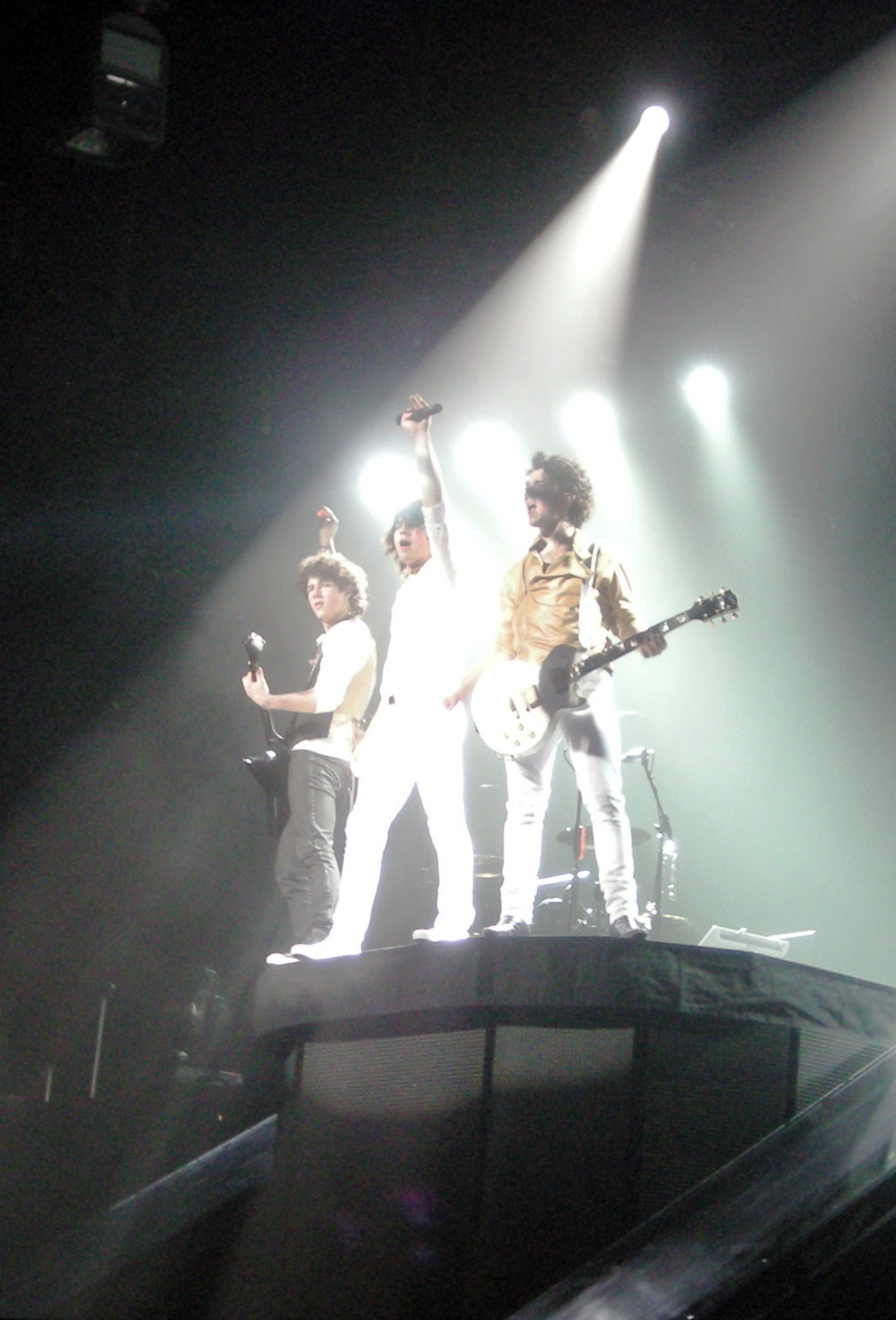 Jonas Brothers Concert in Los Angeles